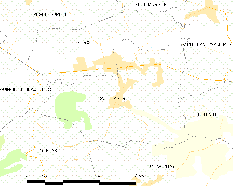 Map of French municipality